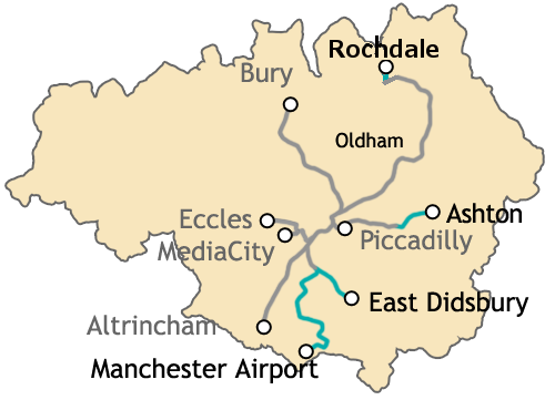 Outline of the route of the phase 3a extension of Manchester Metrolink to Didsbury and Manchester Airport